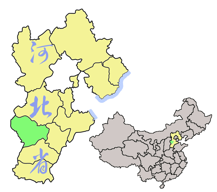 location of the city of shijiazhuang